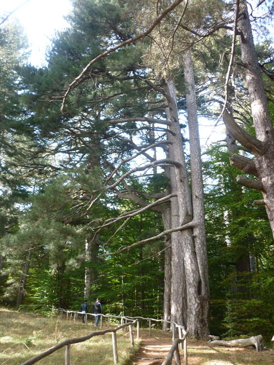 Pinus nigra ssp. Laricio, at Sila National Park, of Calabria, Italy